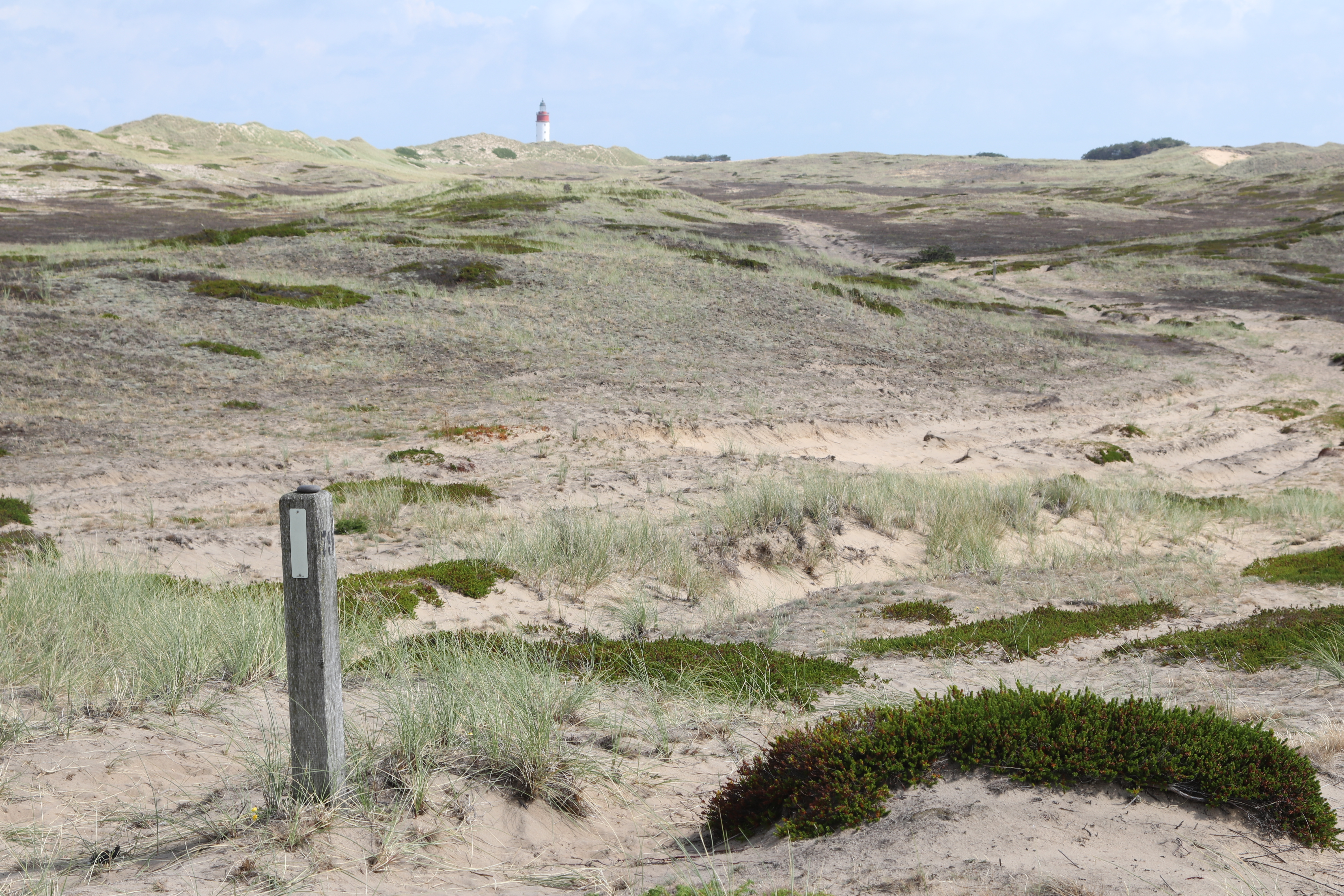 Hektometre pole number 79 on the path towards Anholt Lighthouse in the distance